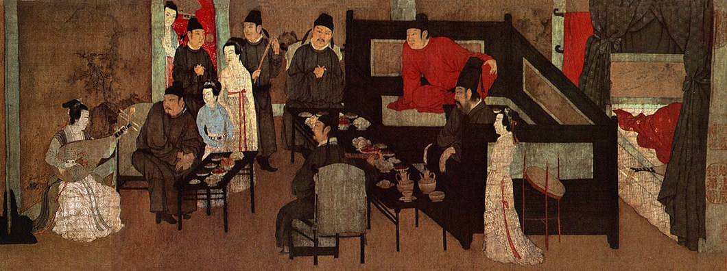 Section of the Chinese painting Night Revels of Han Xizai showing a pipa player and her audience. Handscroll, ink and colors on silk, 28.7 x 335.5 cm. Original by Gu Hongzhong (10th century), 12th century remake from the Song Dynasty. Collection of the Palace Museum in Beijing.